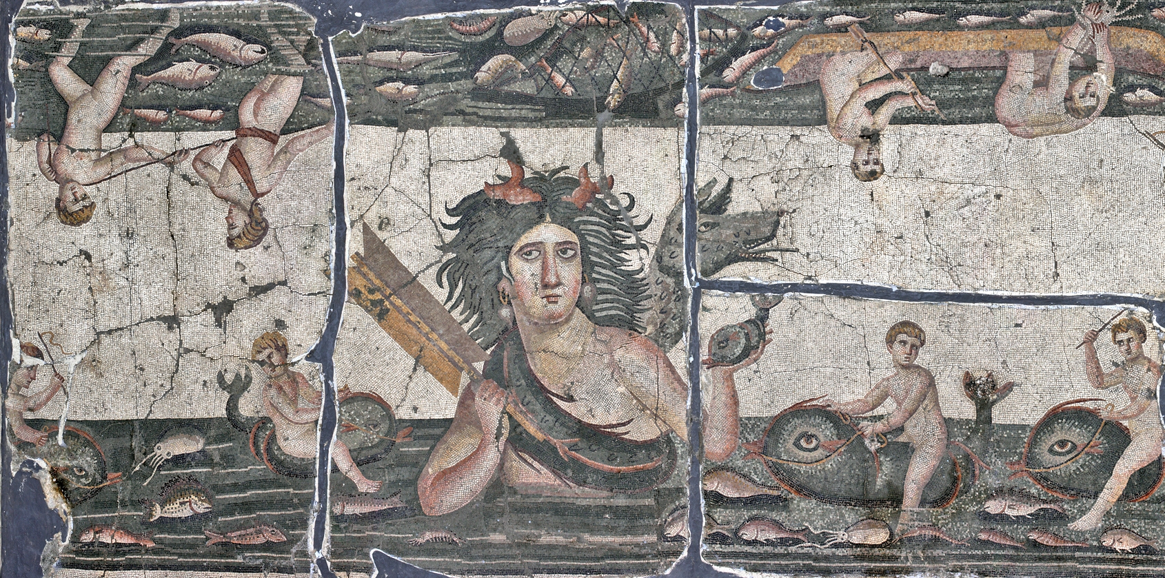 A 5th cenutry CE mosaic representing the sea-goddess Thalassa in the Hatay Archaeologic Museum